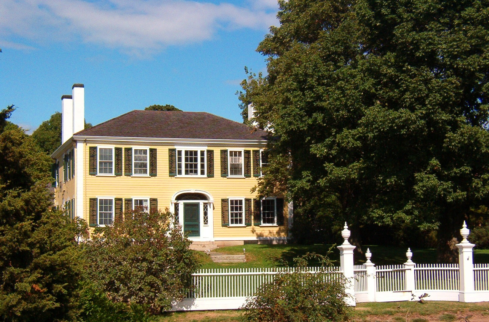 The King Caesar House in Duxbury, Massachusetts. A museum owned by the Duxbury Rural and Historical Society.